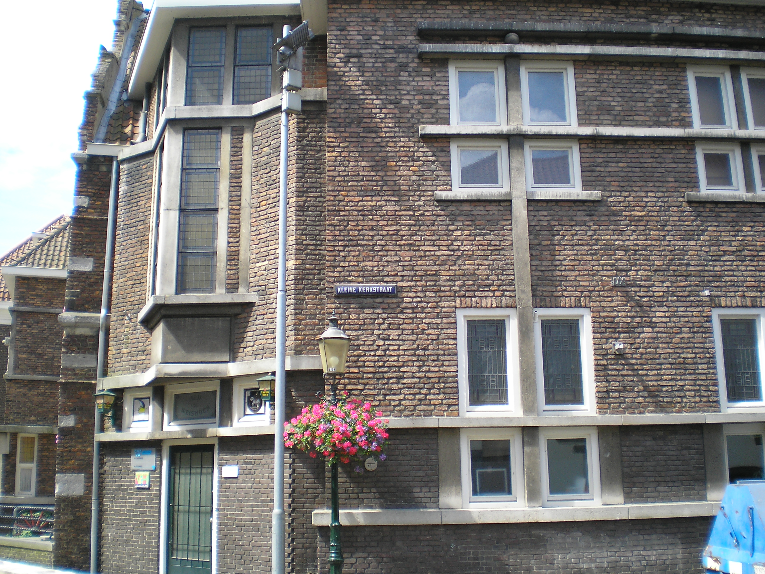 Kleine Kerkstraat in Venlo in the Netherlands